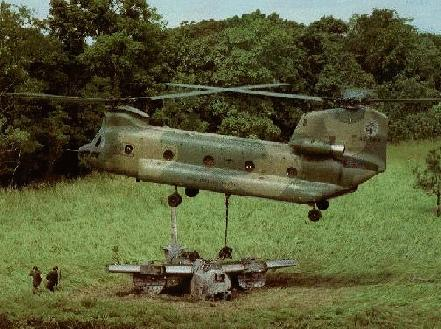 A Royal Australian Air Force Chinook picking up an A-20 Boston twin-engined bomber in Papua New Guinea